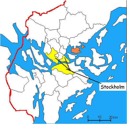 Location of Vaxholm municipality (Kommun), Sweden